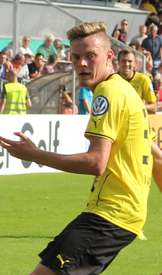 Marvin Ducksch during a match in Wilhelmshaven